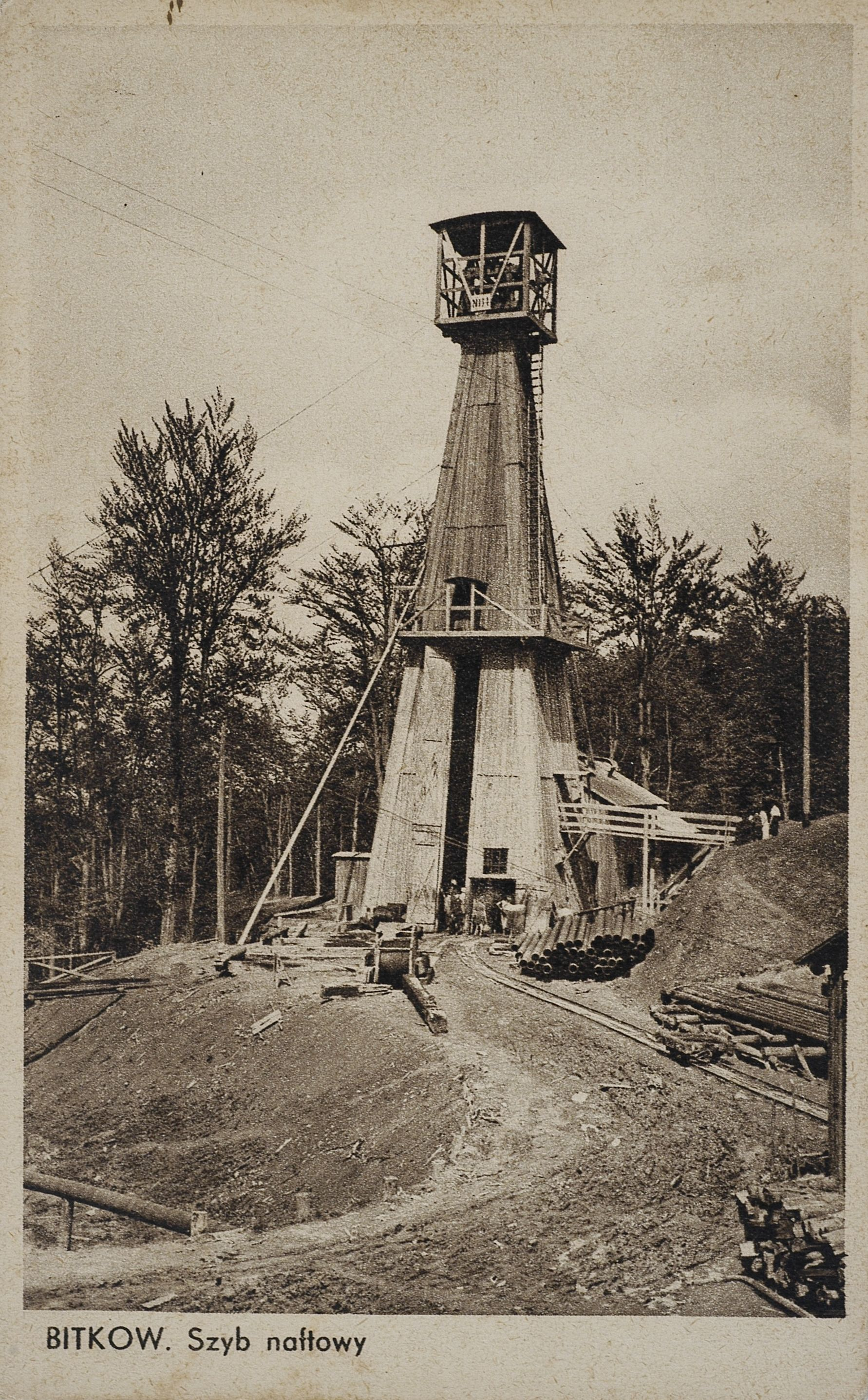 Petroleum oil well in Bitków, Poland, a postcard, ca. 1930. Now Bitków (Битків) is located in Ukraine.